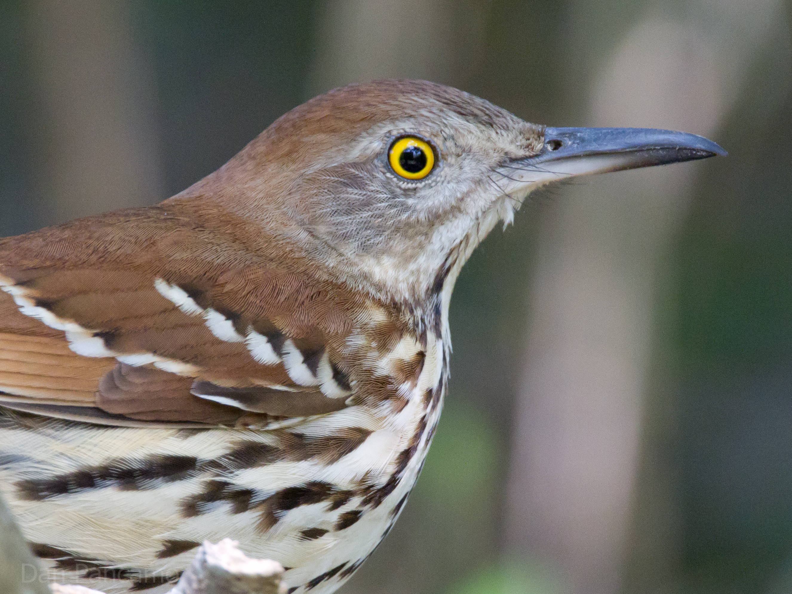 Brown Thrasher in High Island Texas